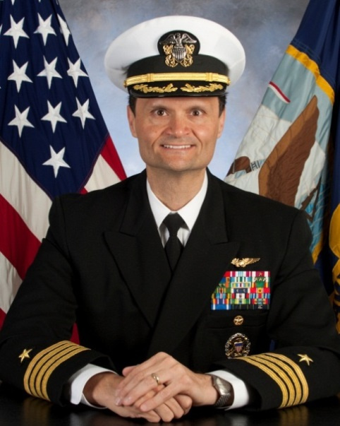 Capt. Kavon Hakimzadeh